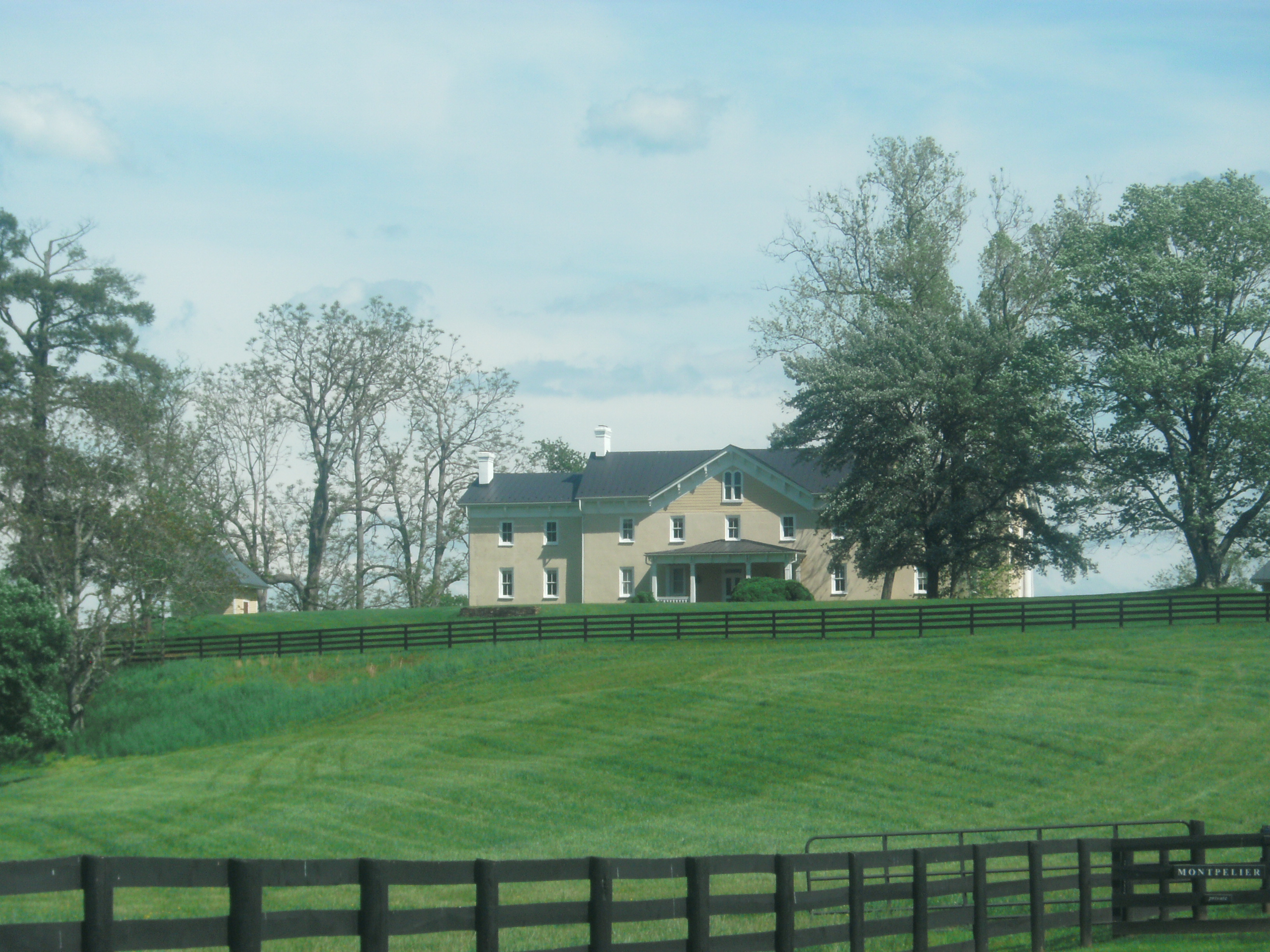 Taken by me in May, 2016 GEDSC DIGITAL CAMERA